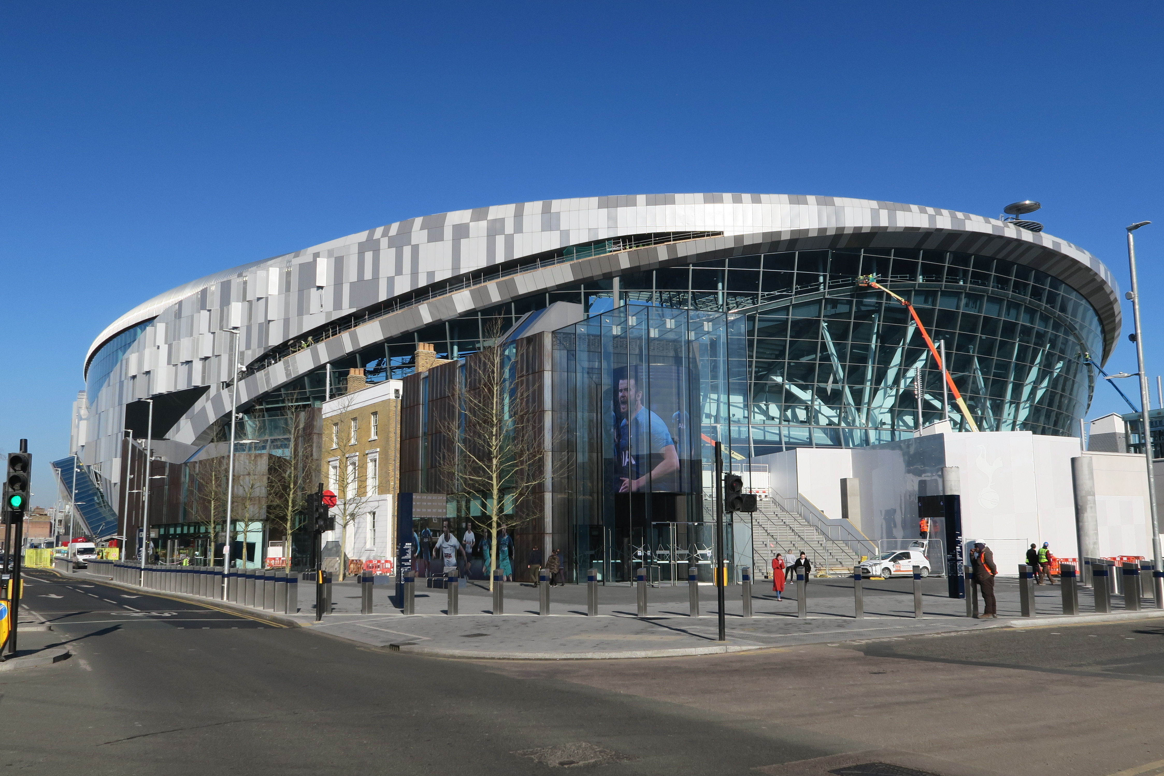 View of Tottenham Hotspur Stadium from High Road, February 2019